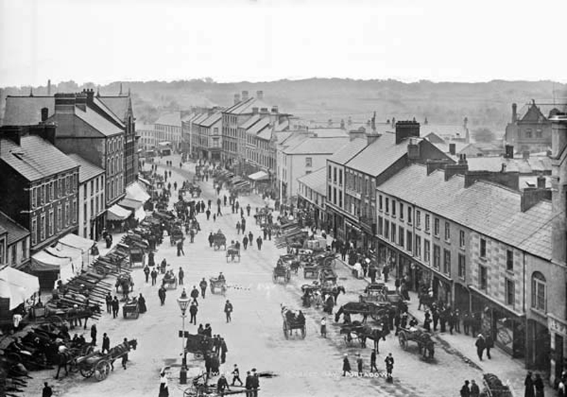 Bird's eye view of a bustling Market Street, Portadown, Craigavon, Co. Armagh. Date: ca. 1900 NLI Ref.: EAS_0117